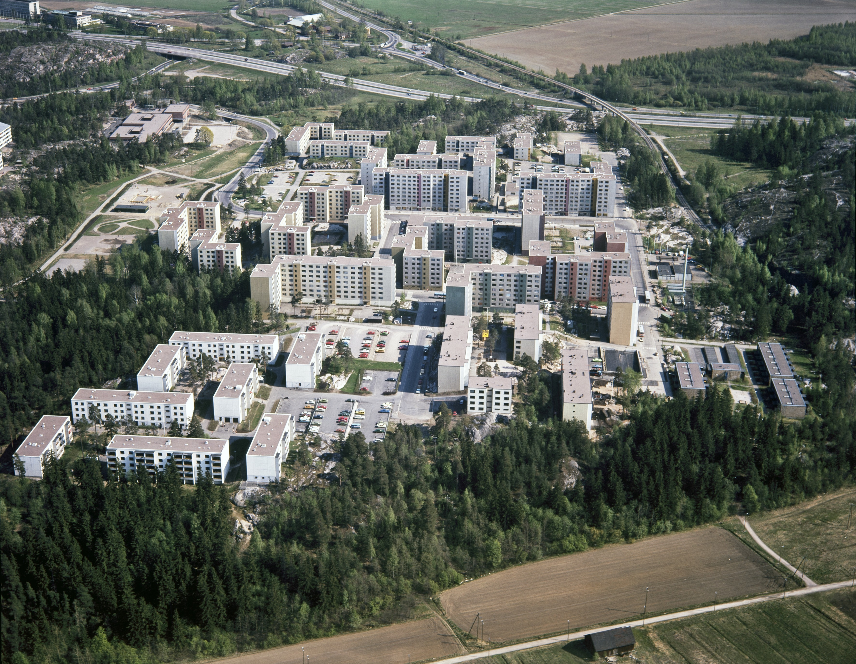 Helsinki, Salpausseläntie. Tiirismaantie